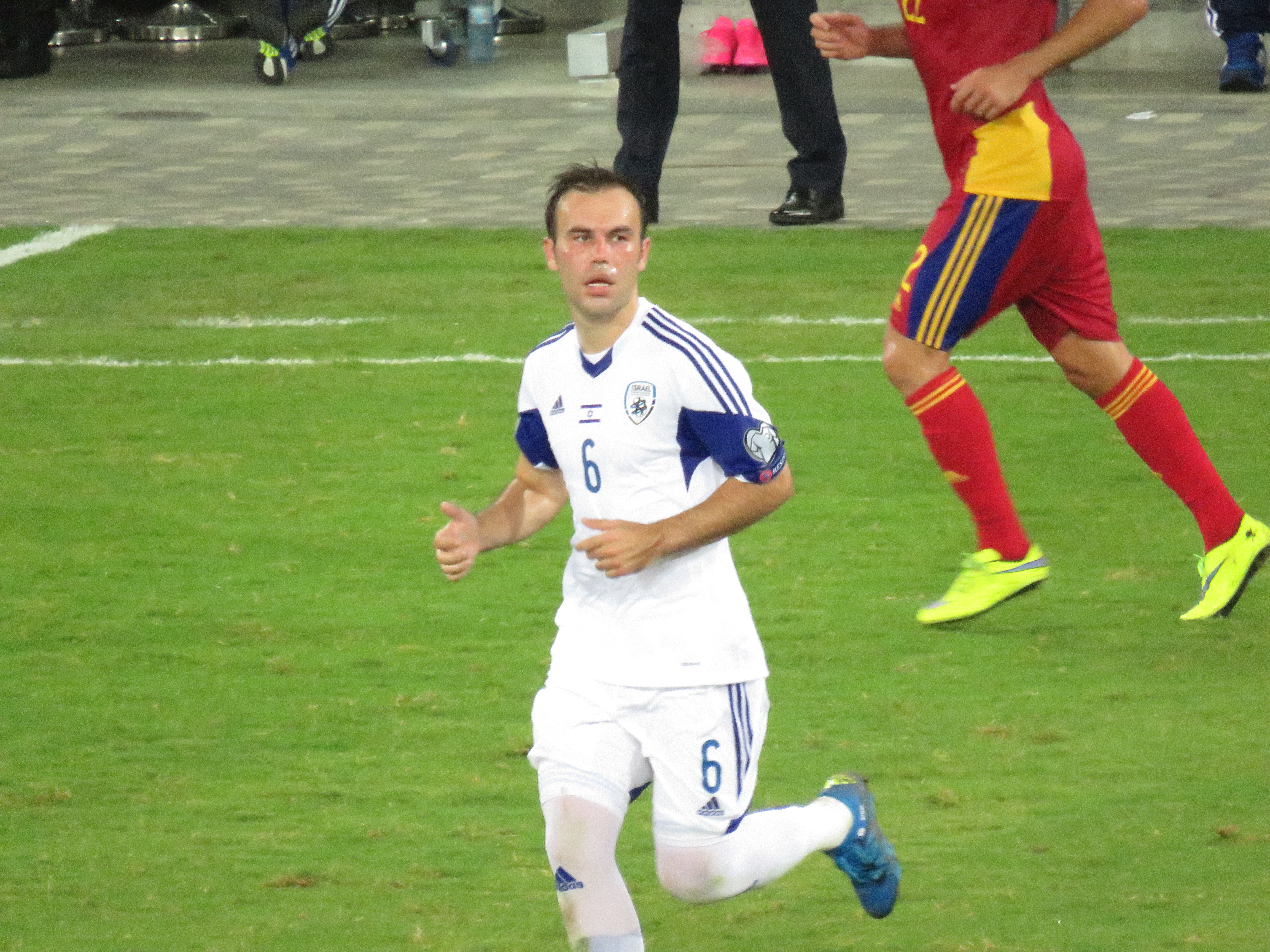 Israel vs. Andorra - September 3, 2015